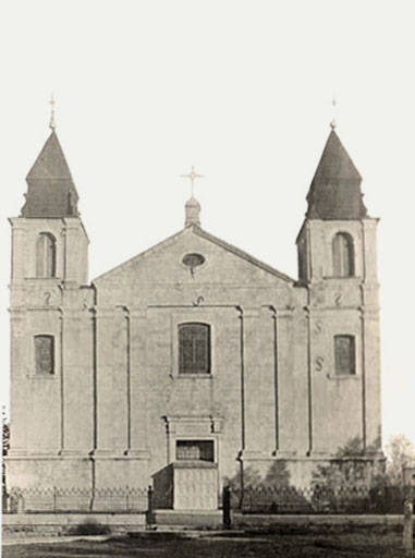 St. Mary of the Assumption Roman Catholic Church, Perryville, Missouri